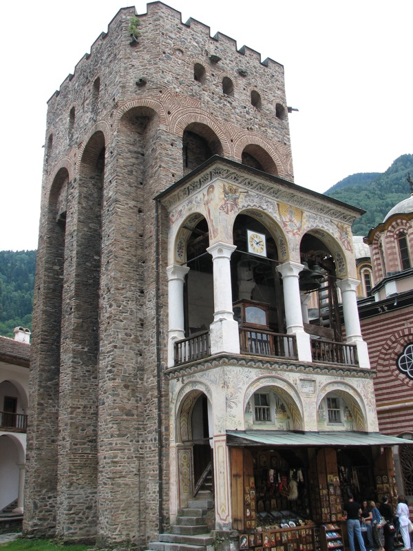 This is at the Rila Monastery. The structure is one of the oldest.